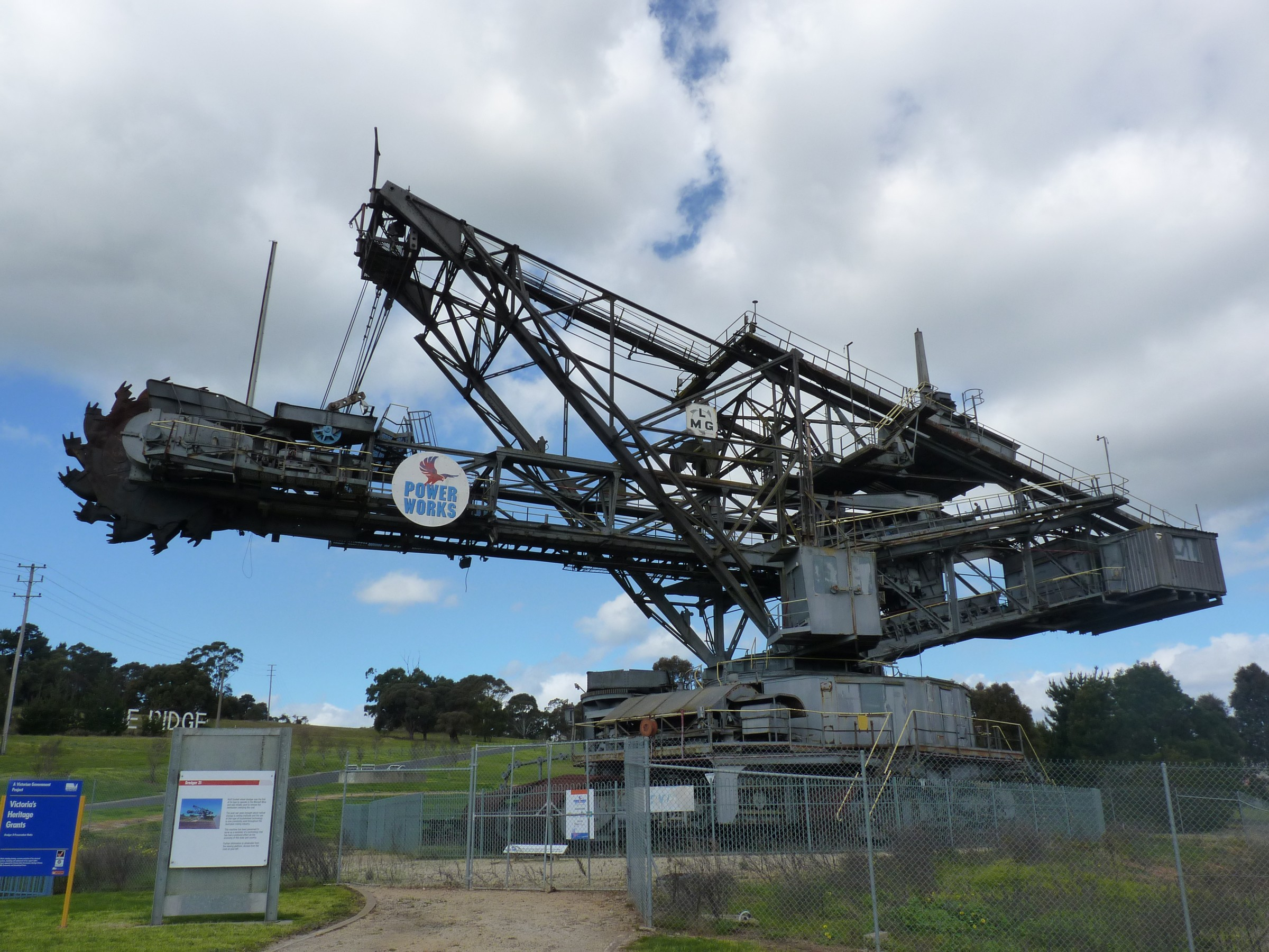 Dredger 21, a retired bucket-wheel excavator (manufactured by LMG) on display at Power Works museum in Morwell, Victoria, Australia